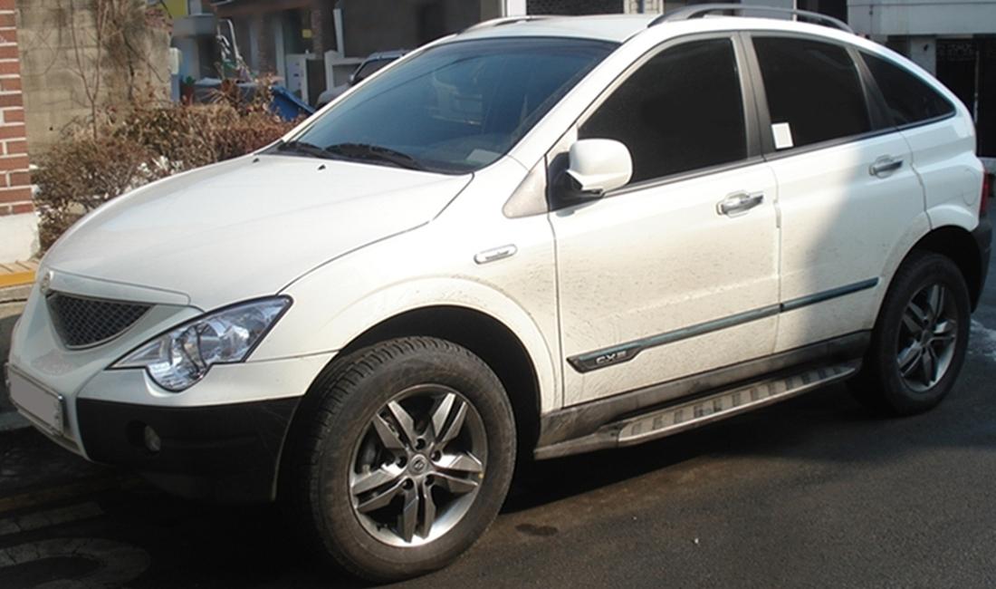 SsangYong Actyon